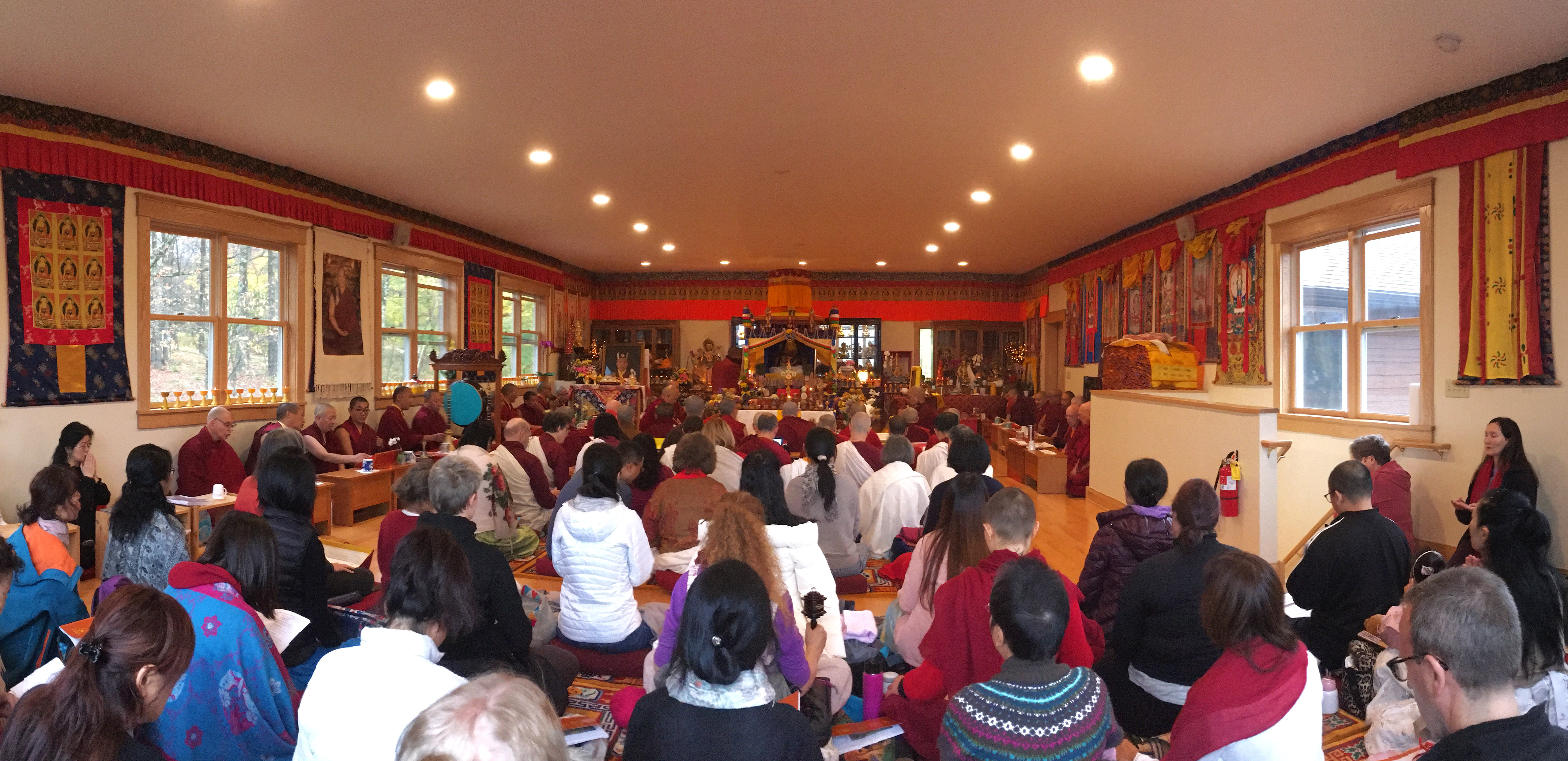 Rinpoche's body is in the far center on a shrine which can be circumambulated. The high Lamas are Tulku Damcho Rinpoche, Lama Tashi Dondup and Vajra Master Lama Tobden.